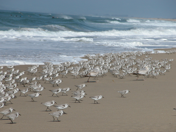 Sanderlings search for food at the Monterey Bay National Marine Sanctuary